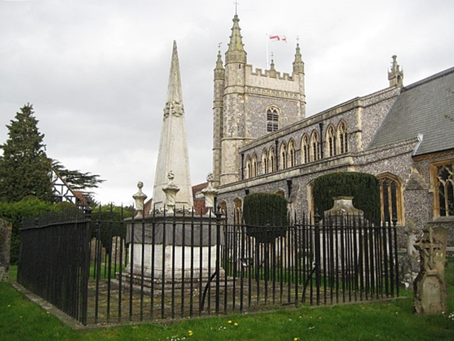 Tomb of Edmund Waller, St Mary's church, Beaconsfield, Bucks